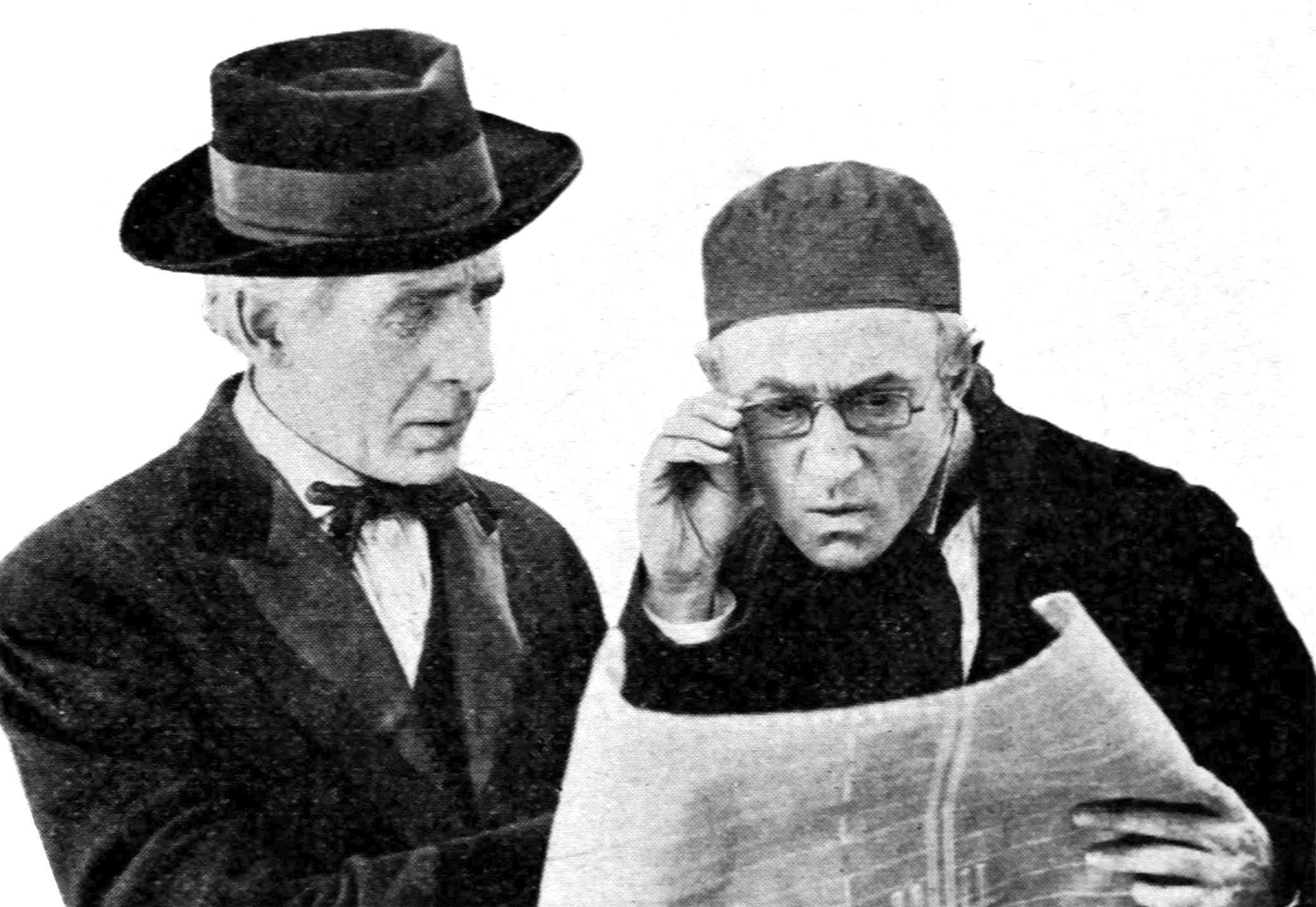 Spottiswoode Aitken and John Emerson in The Flying Torpedo